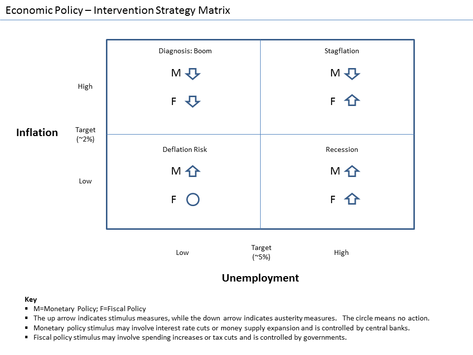 Matrix illustrating typical fiscal and monetary policy intervention strategies used by governments and central banks under various scenarios, defined by inflation and unemployment rates.